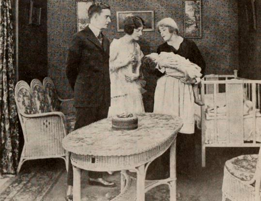 Still from the American drama film The Prodigal Wife (1918) with Harris Gordon, Lucy Cotton, and Mary Boland, on page 35 of the November 2, 1918 Exhibitors Herald.